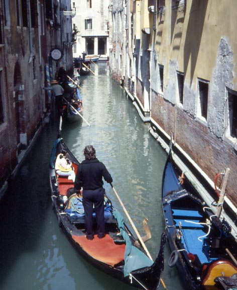 canal of Venice in Italy